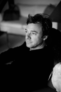 Black and White photo of Philipp Keel from Press Kit via Flickr